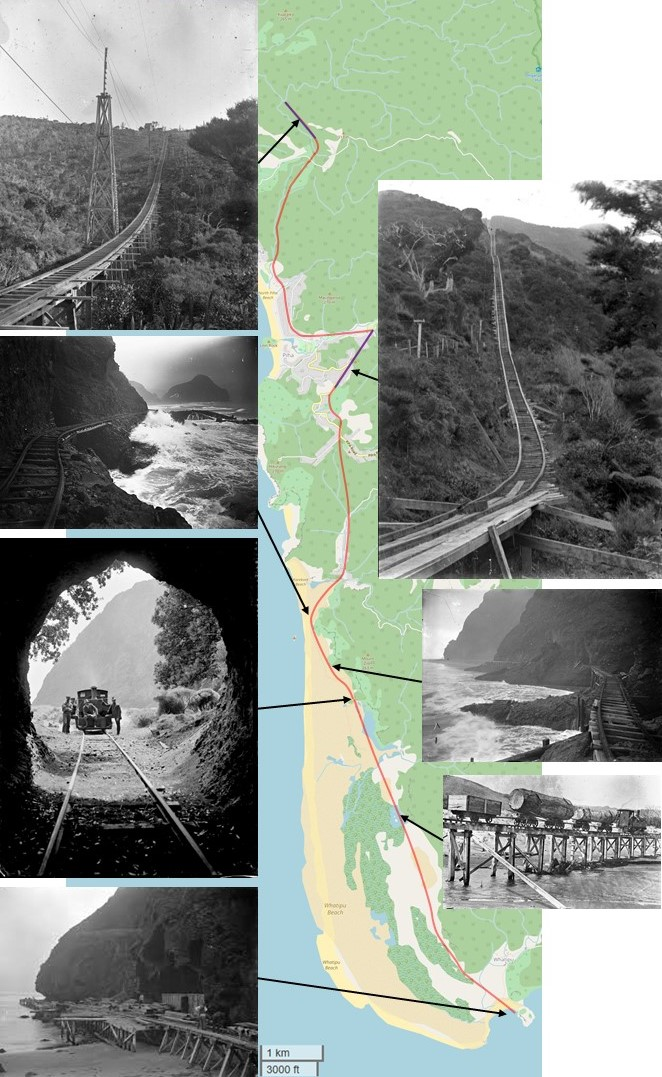 Route of former Piha Tramway and historic photos superimposed onto modern OpenStreetMap map